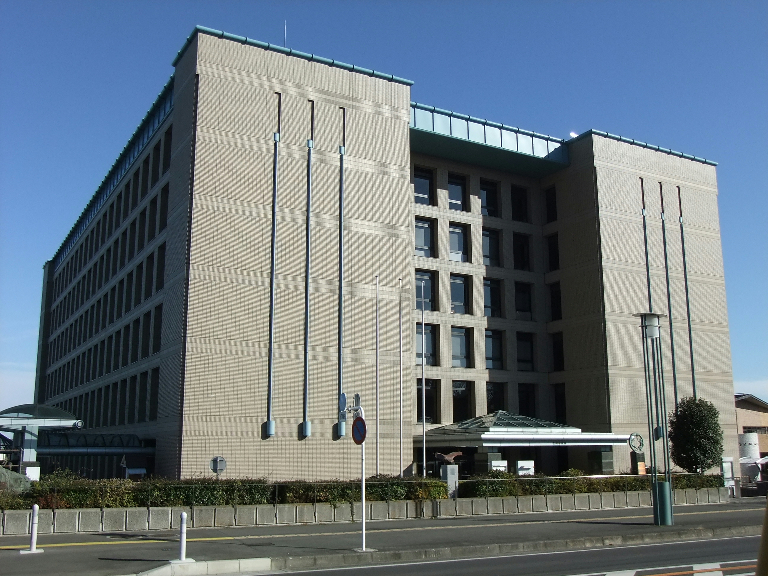 Zama City Hall, KANAGAWA Pref. Japan